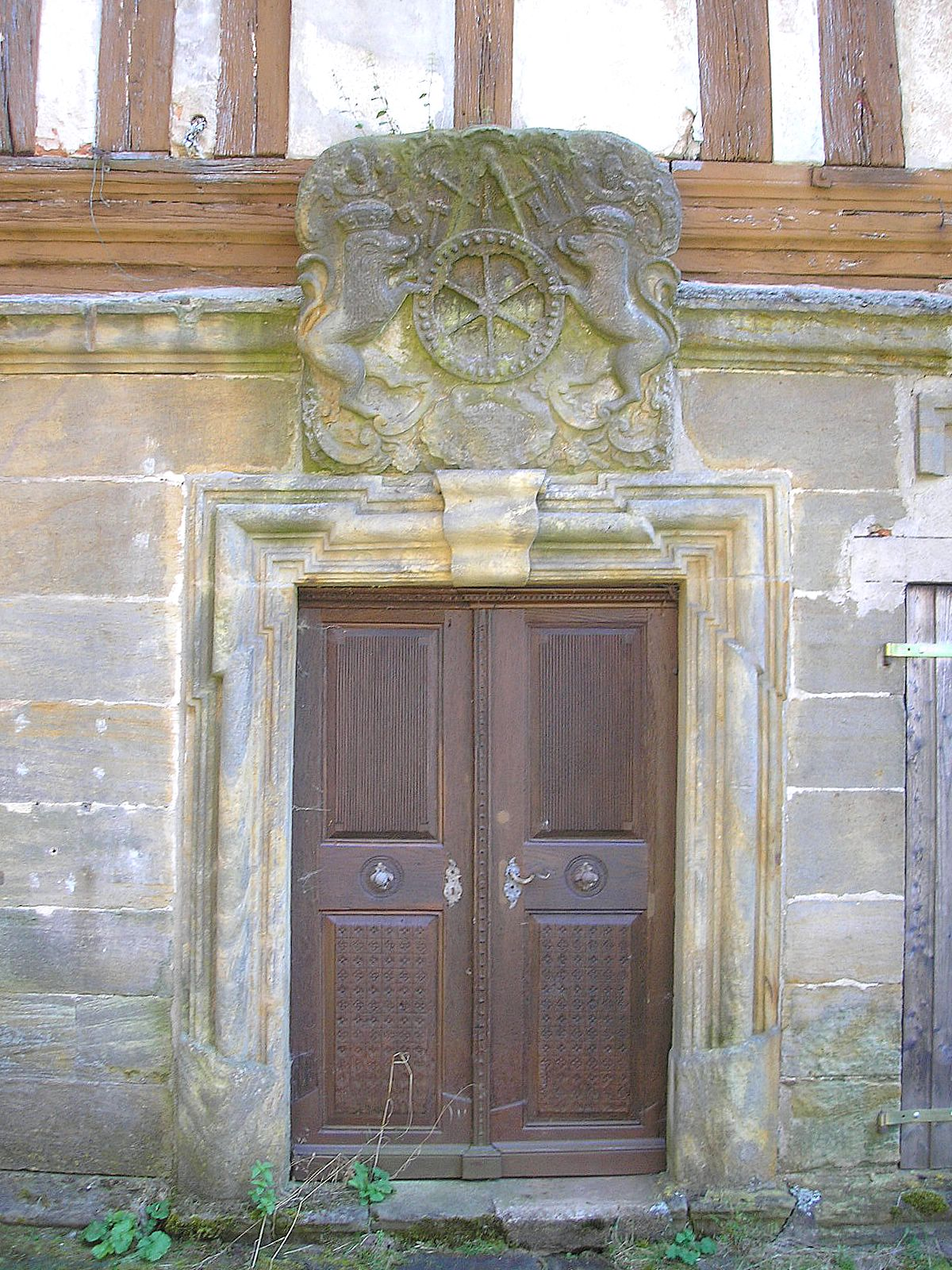 Hetschings mill near Ebern (Landkreis Haßberge, Lower Franconia, Germany). The front door